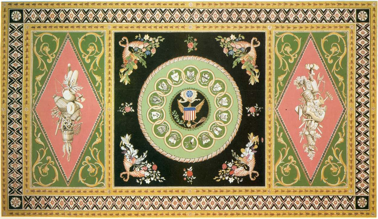 Color rendering for the reconstruction of a carpet which once existed in the Senate chamber of Congress Hall in Philadelphia when the United States Congress was there in the 1790s. It shows the Great Seal of the United States surrounded by the shields of the 13 states at the time. It was an Axminster carpet made by local carpetmaker William Sprague in 1790/91. The original rug has long been lost; the reproduction was made based on a couple of contemporary written accounts and therefore the exact design is speculative. It was made as part of the restoration of Congress Hall by the National Park Service, mostly done for the 1776 bicentennial celebrations, where it still is today.